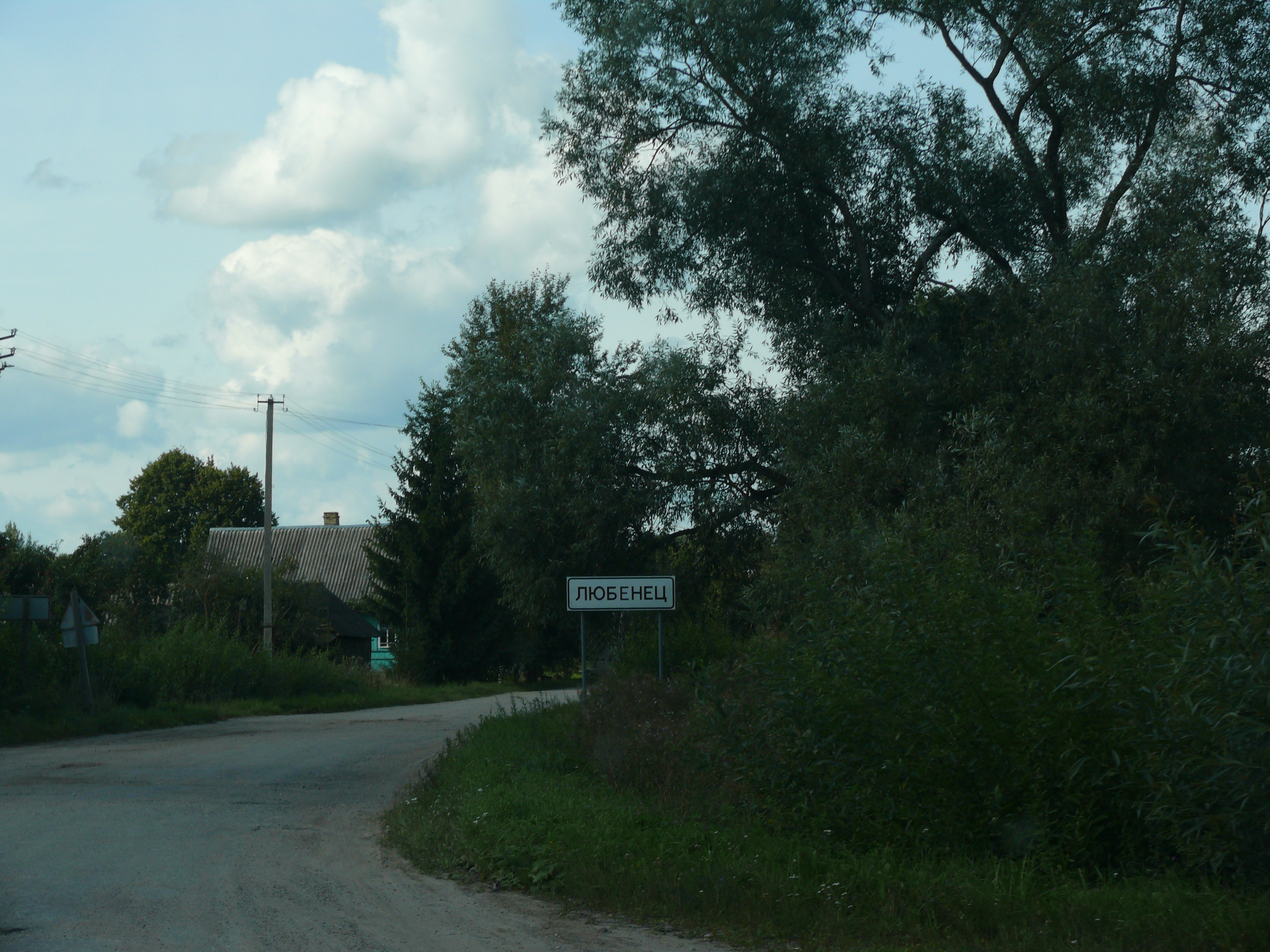 Liubenets village, Batetsky district, Novgorod oblast, Russia